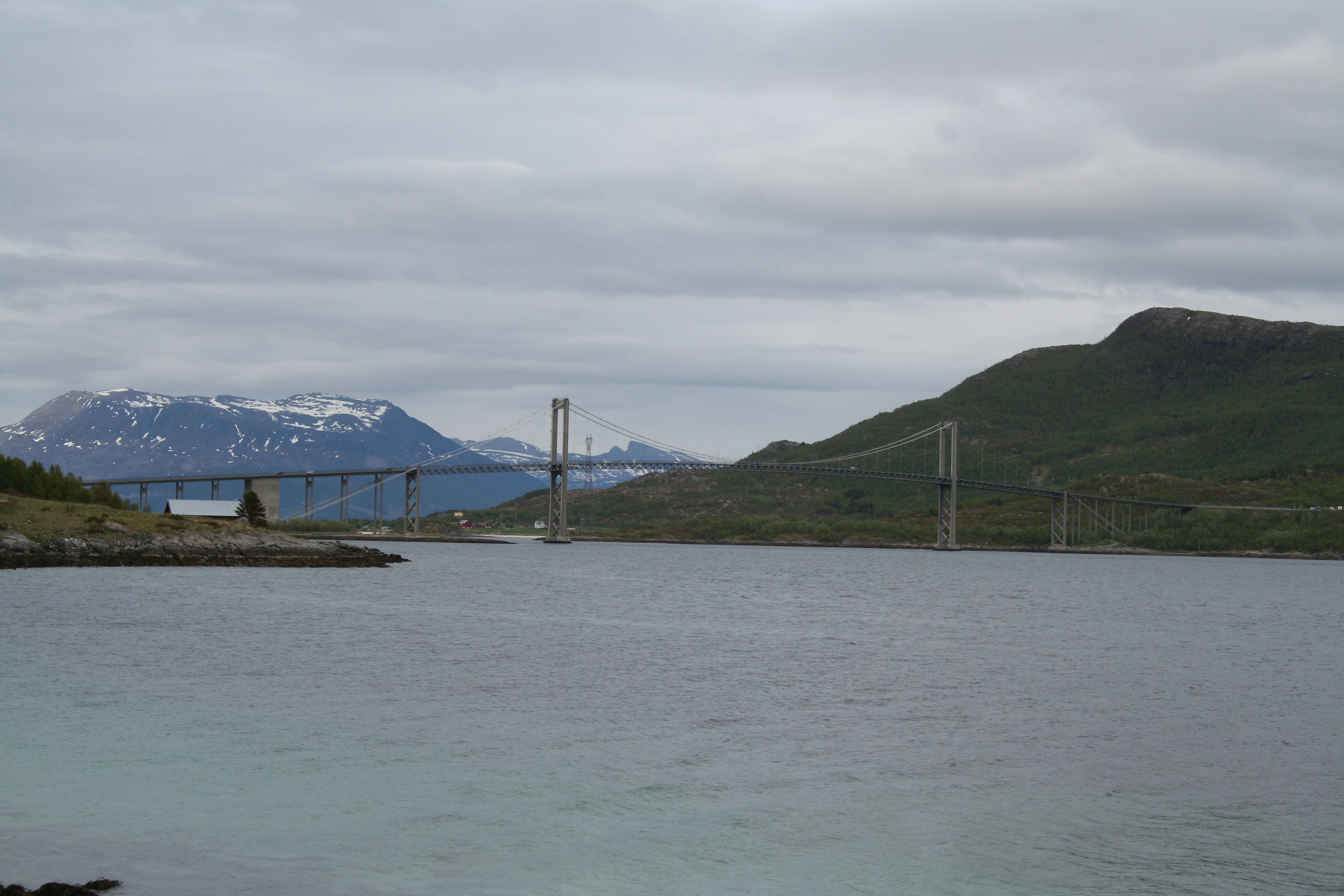 Tjeldsund bridge as seen from the old ferry quay at the Hinnøy side.